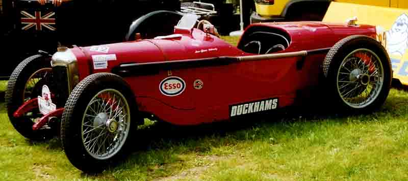 Riley Brooklands 1930